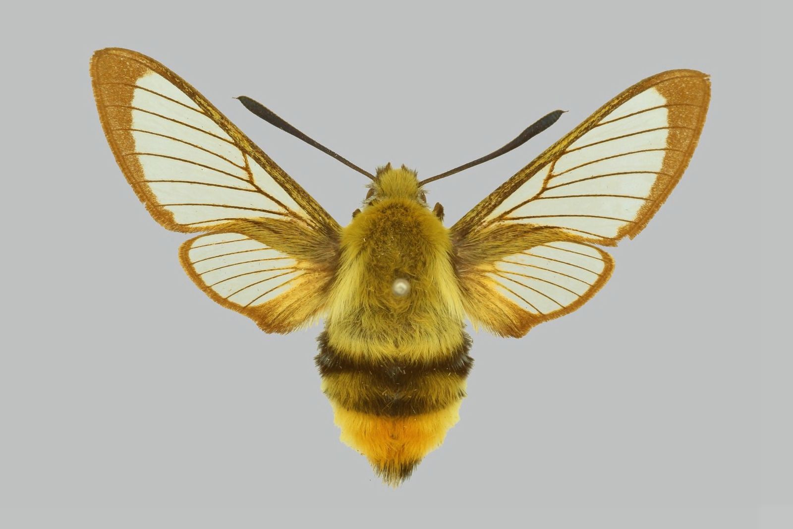 Hemaris tityus, female, upperside. Switzerland, Vaud